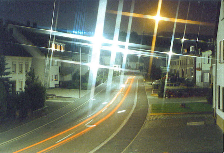 This is a shot of a street in MORBACH, GERMANY.